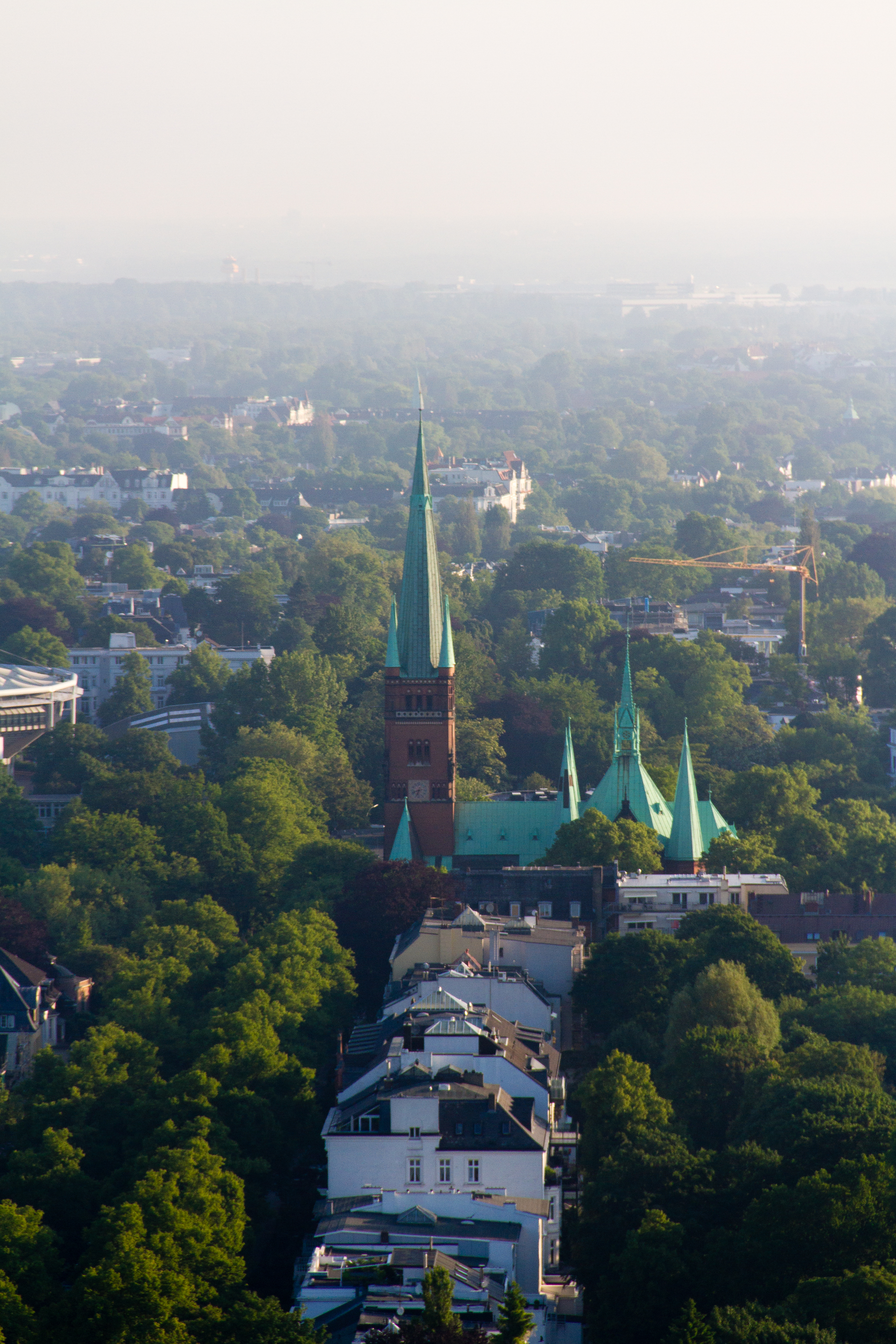 Church: St. Johannis-Harvestehude, Heimhuder Str. 92, Hamburg-Rotherbaum